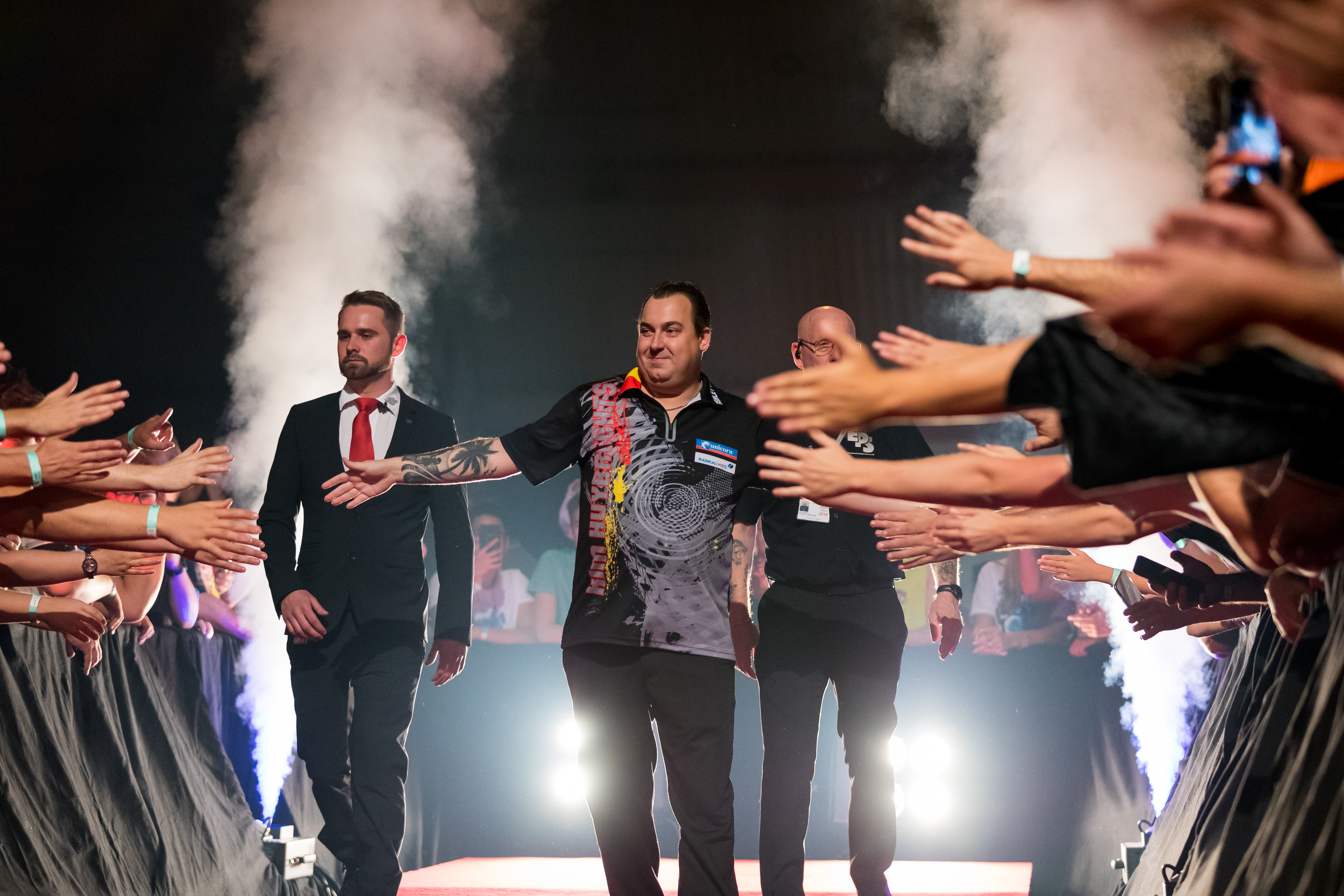 Robert Thornton 5:6 Kim Huybrechts during PDC Europe Darts Matchplay at Maimarkthalle, Mannheim, Baden-Württemberg, Germany on 2019-09-06, Photo: Sven Mandel